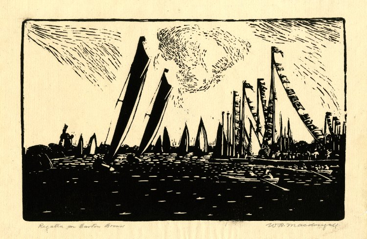 Regatta on Barton Broad - woodcut